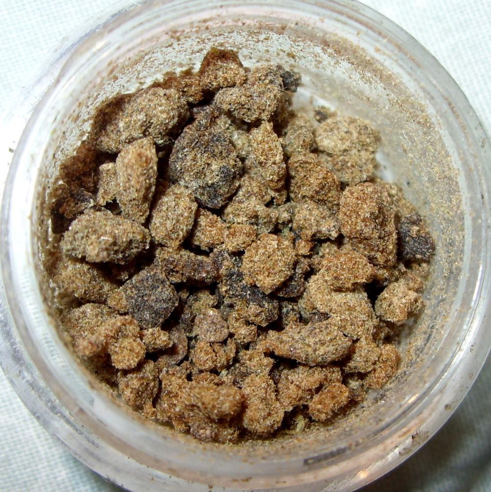 A-grade OG Kush trichomes by ice extraction of OG Kush cannabis Indica